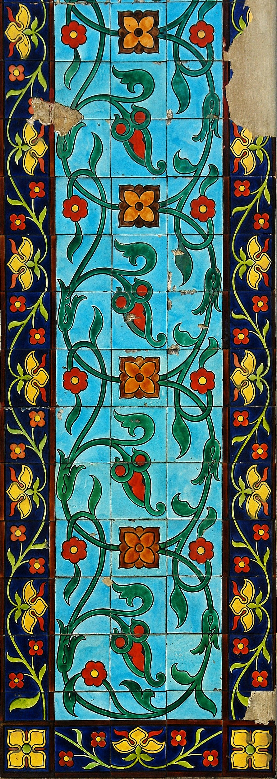 Detail of the ceramic covering the facade of the Zacher insecticide factory (Vienna, Austria) commissioned by Johan Evangelist Zacherl with Persian shapes The Pyrethrum powder, raw natural material used for his insecticidal powder called "Zacherlin", was imported from Tifflis. Architect: Hugo (von) Wiedenfeld Execution: Karl Mayreder Post-processing: perspective correction